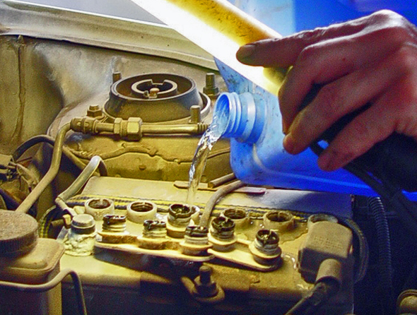 Filling a car battery with distilled water